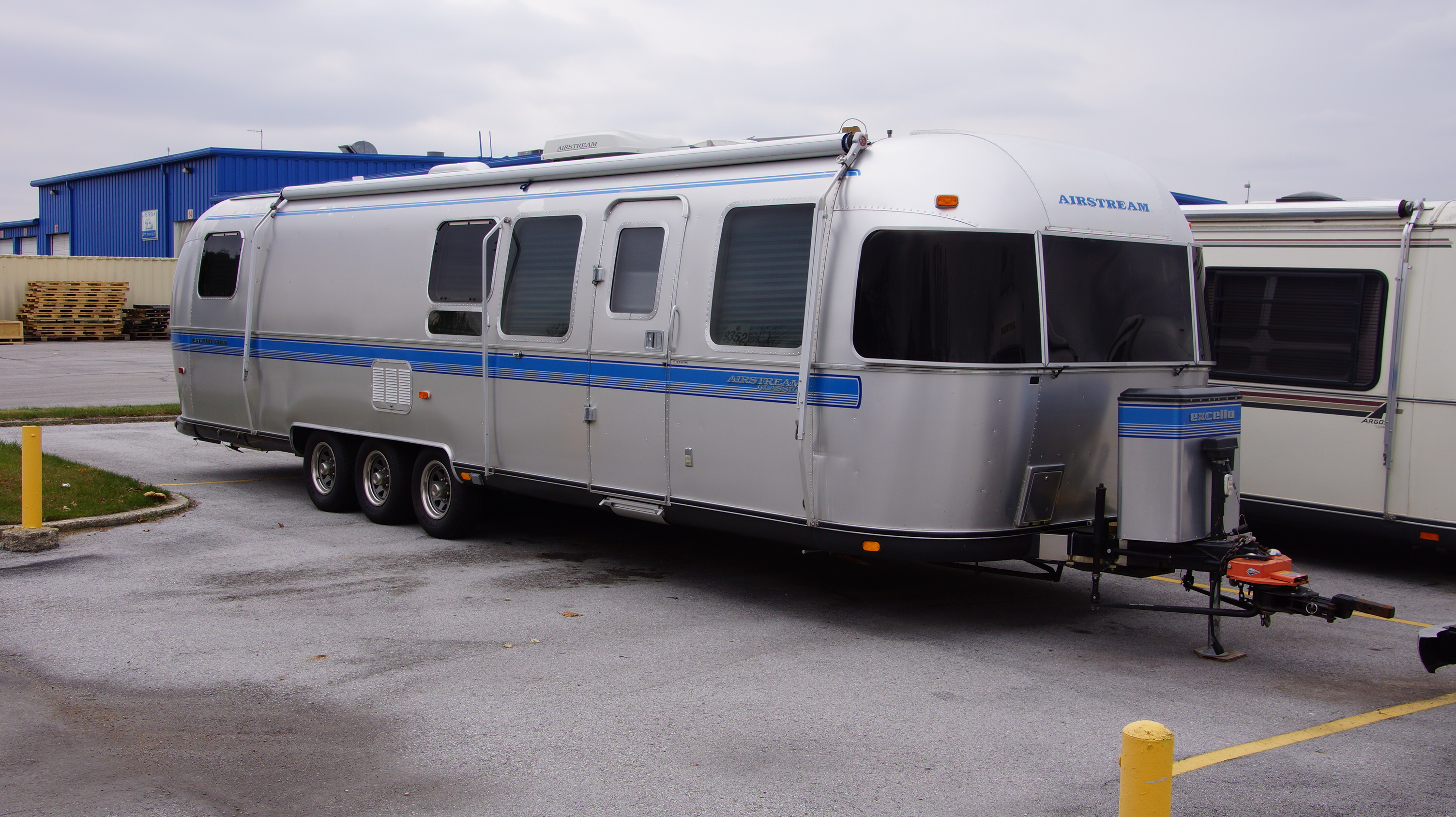 Airstream Travel Trailers in Jackson Center, Ohio